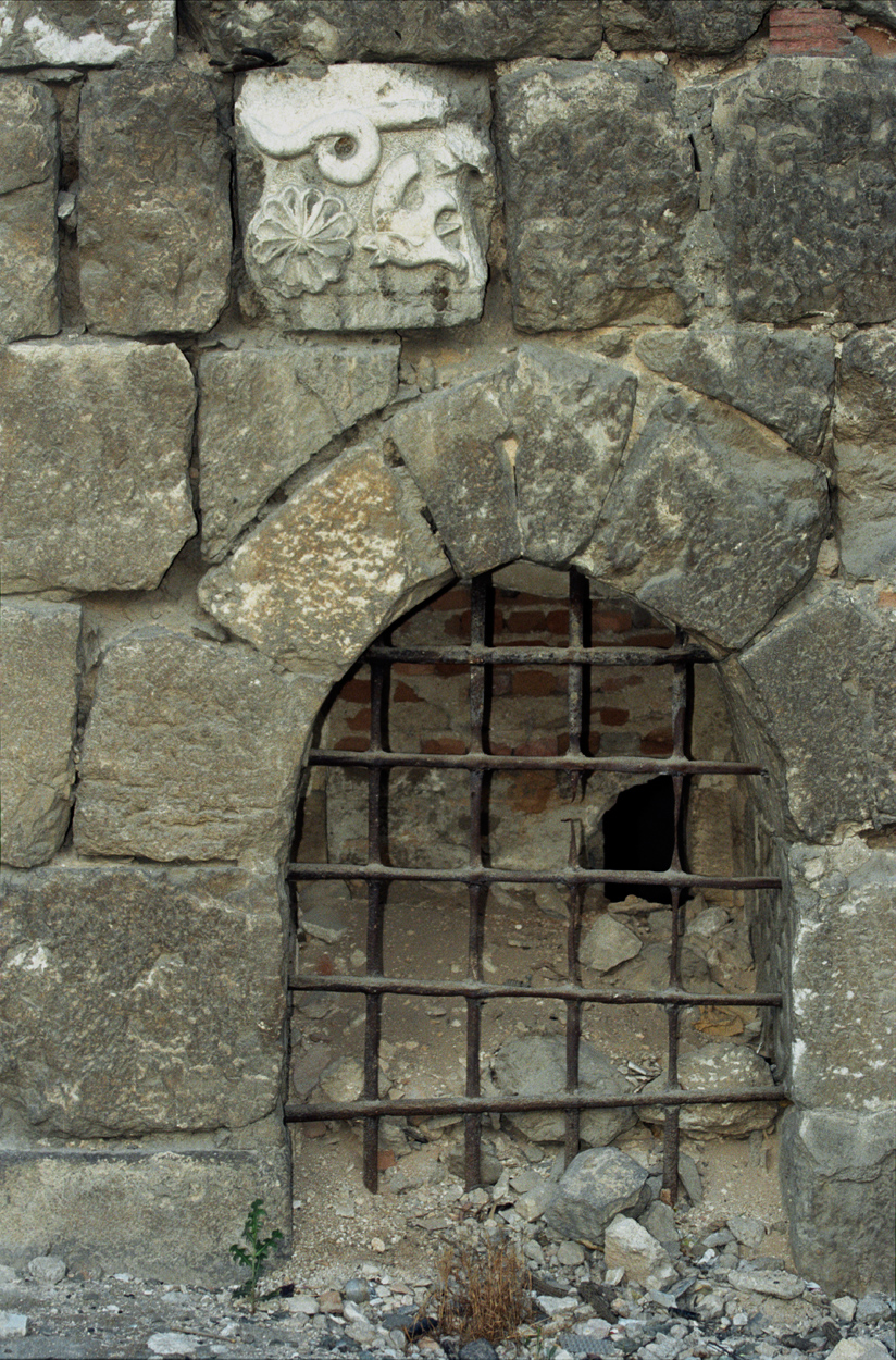 Damascus, a part of Citadel walls